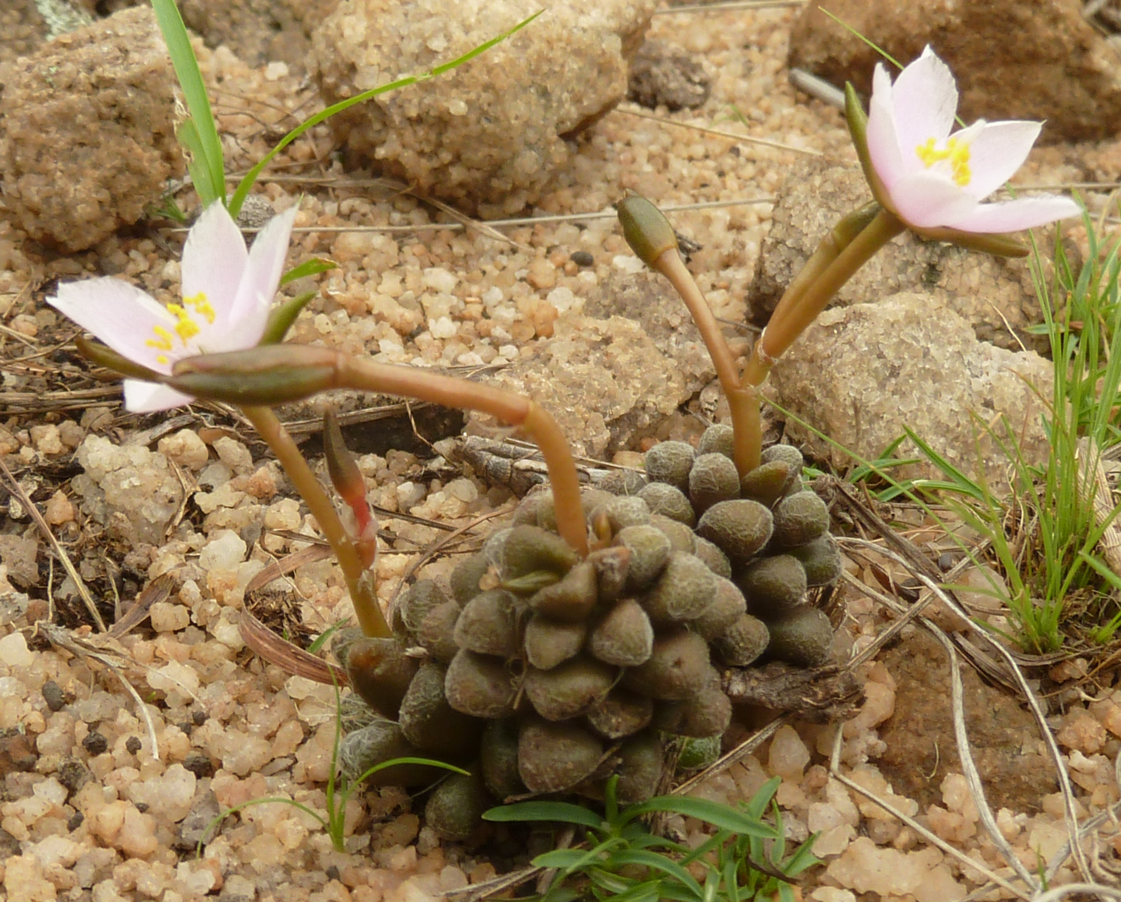 Habit of Anacampseros subnuda subsp. subnuda on the crest of the Magaliesberg near Skeerpoort, South Africa